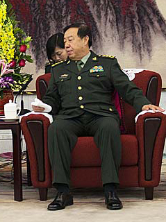 Fan Changlong: Chinese General, Vice Chairman of the Central Military Commission